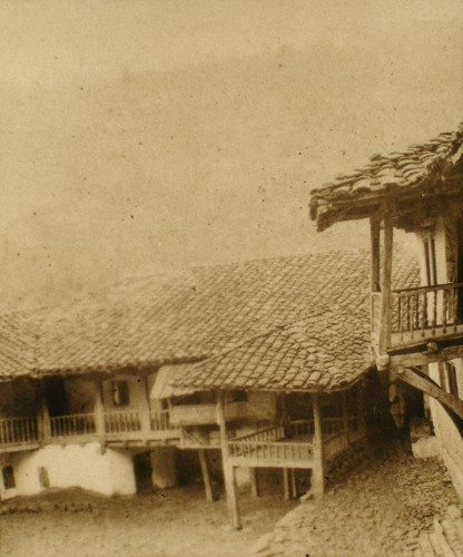 Kučevište Monastery. 1903